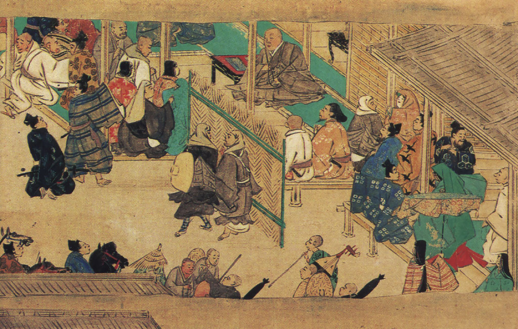 Honen shonin eden - Chion-in version - public preach